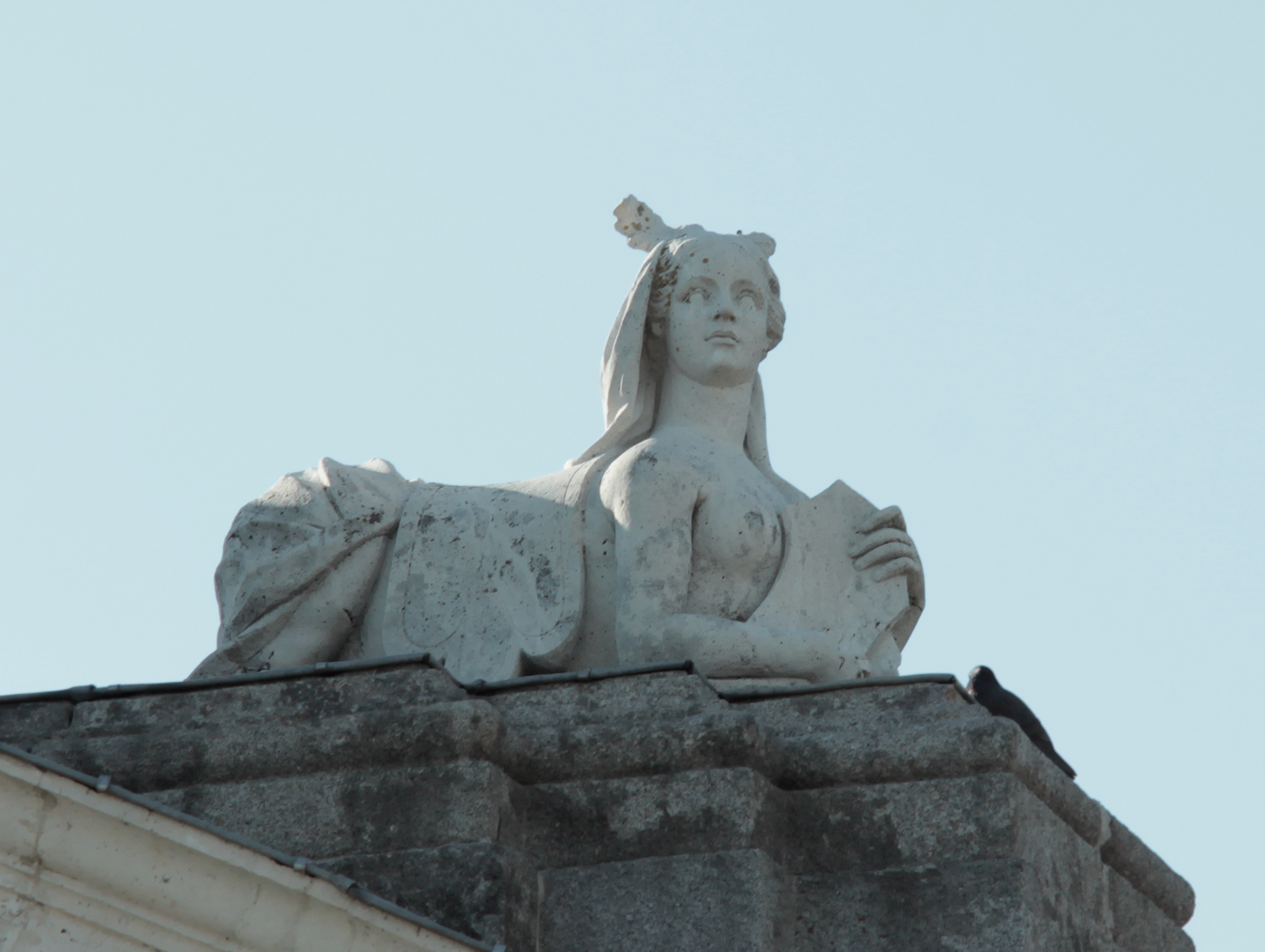 East sphinx of Puerta de Hierro.